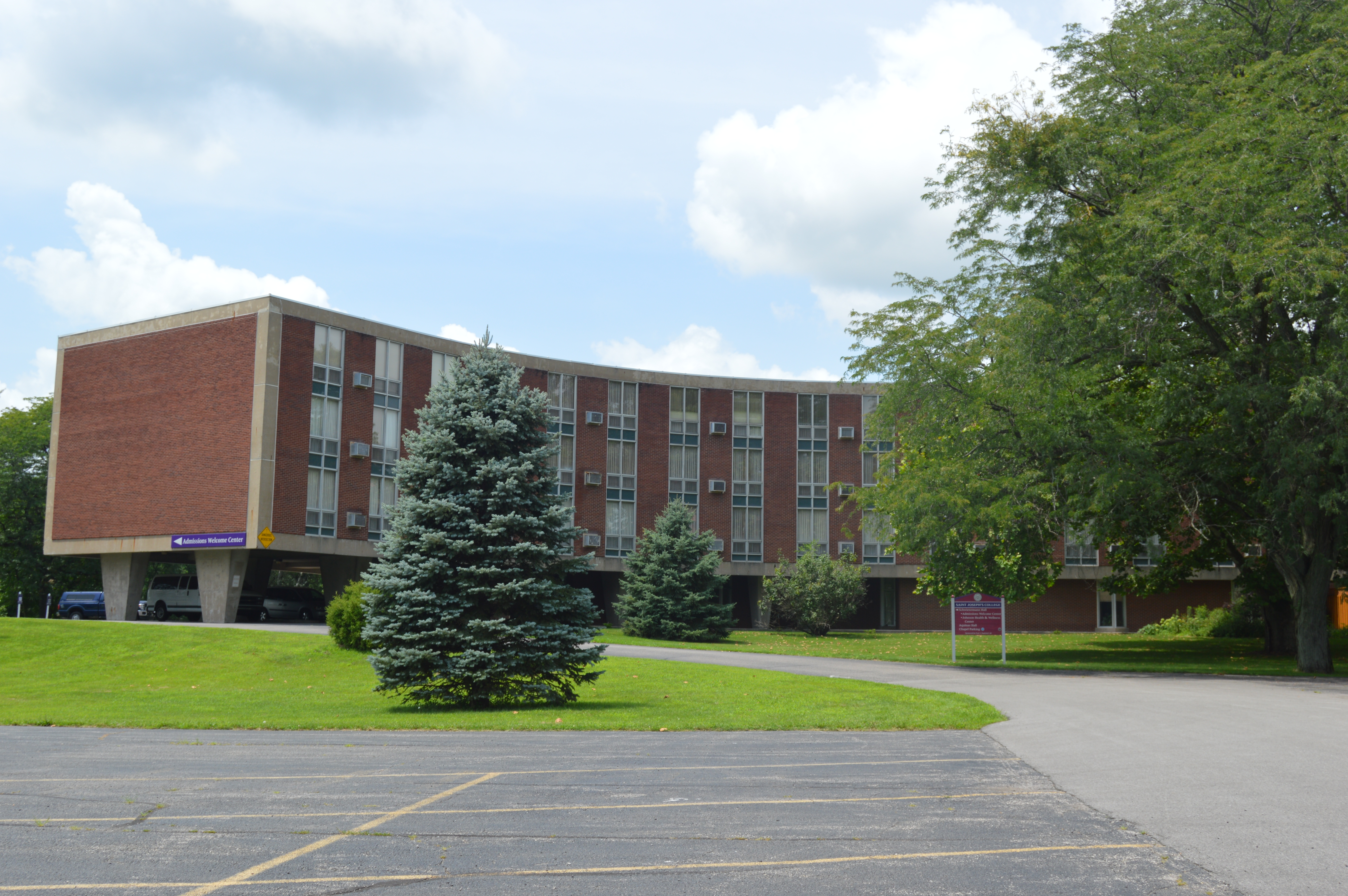 Eastern view of Schwietermann Hall, located on the campus of Saint Joseph's College just south of Rensselaer in Marion Township, Jasper County, Indiana, United States. Built in 1962, it is listed on the National Register of Historic Places.